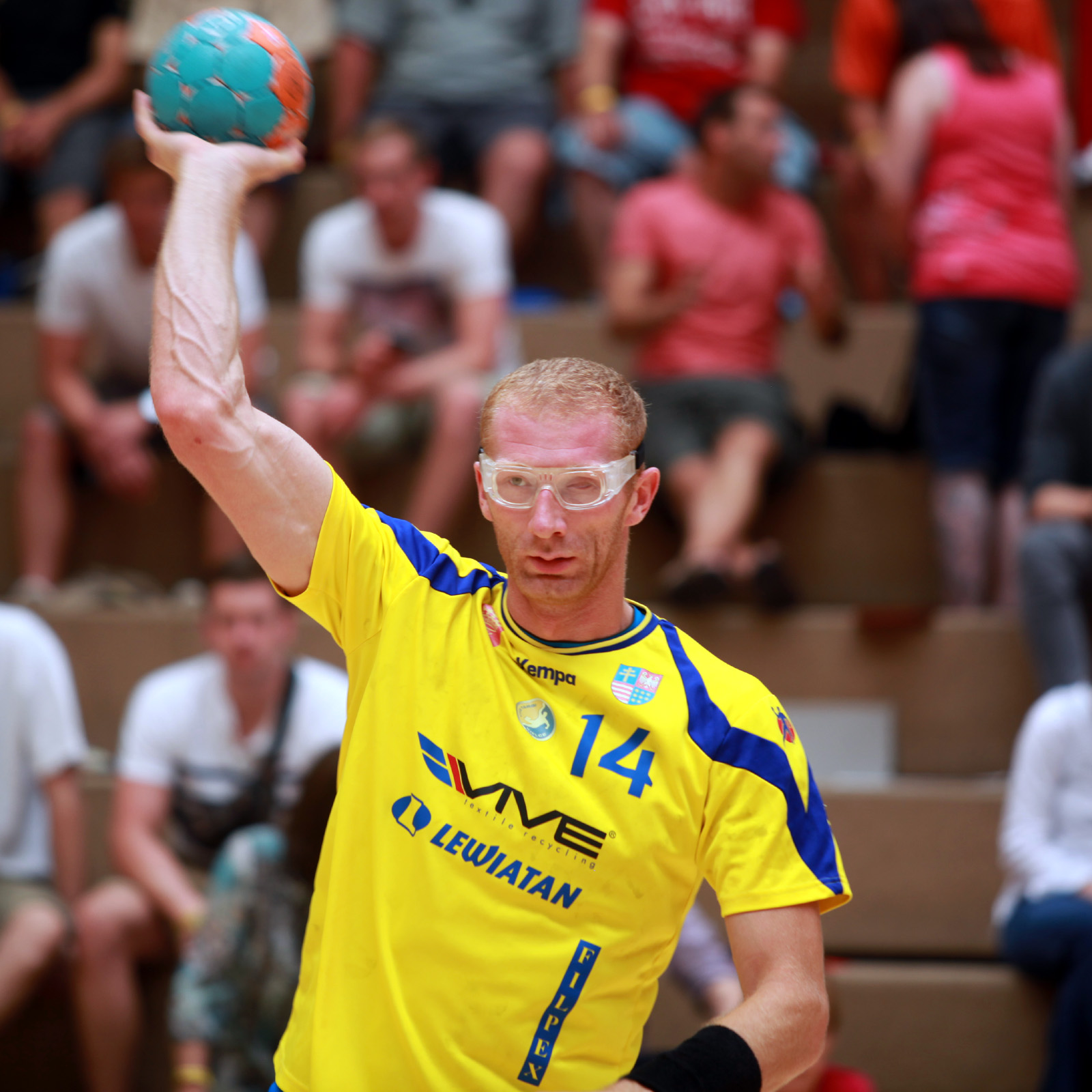 Karol Bielecki, on August 17th, 2012 in Ehingen (Germany), during the Sparkassen Cup (formerly known as Schlecker Cup).